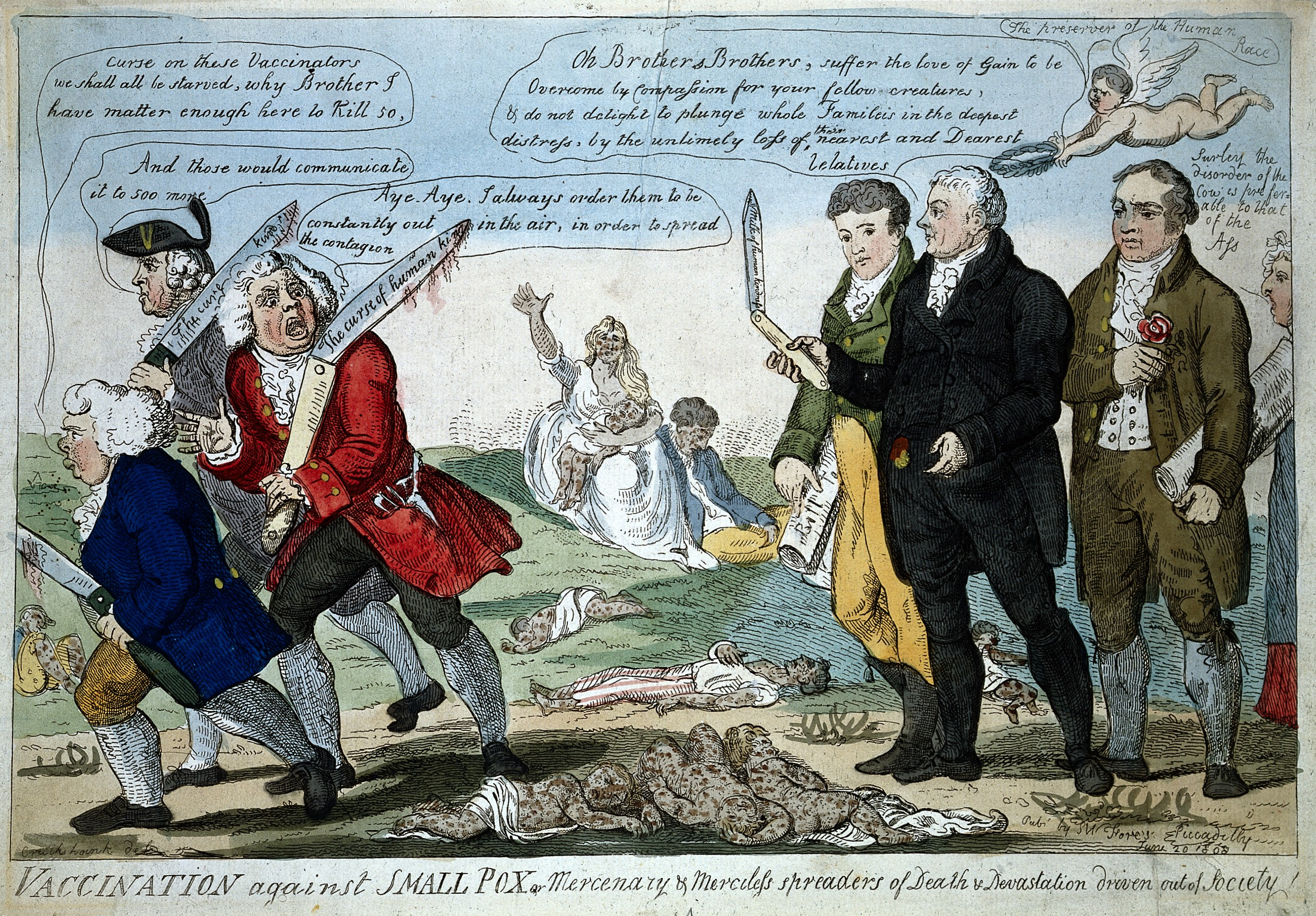 Jenner and his two colleagues seeing off three anti-vaccination opponents, the dead are littered at their feet. Coloured etching by I. Cruikshank, 1808. Iconographic Collections Keywords: Edward Jenner; Vaccination; Caricatures as Topic; Thomas Dimsdale; George Rose; Isaac Cruikshank; Disease Transmission, Infectious; Smallpox Vaccine; Immunization; Smallpox